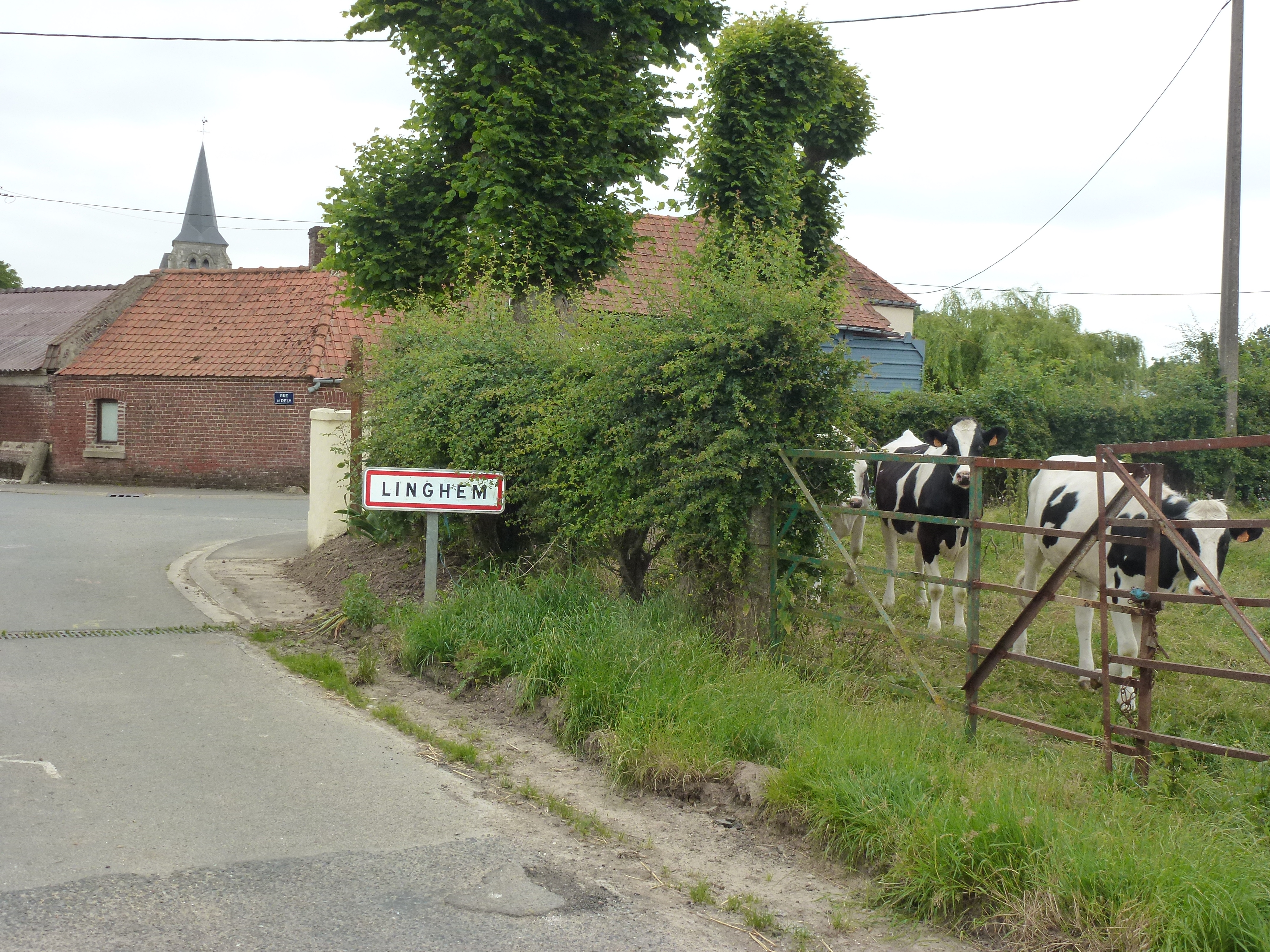 Linghem (Pas-de-Calais) panneau d'entrée, tour de l'église